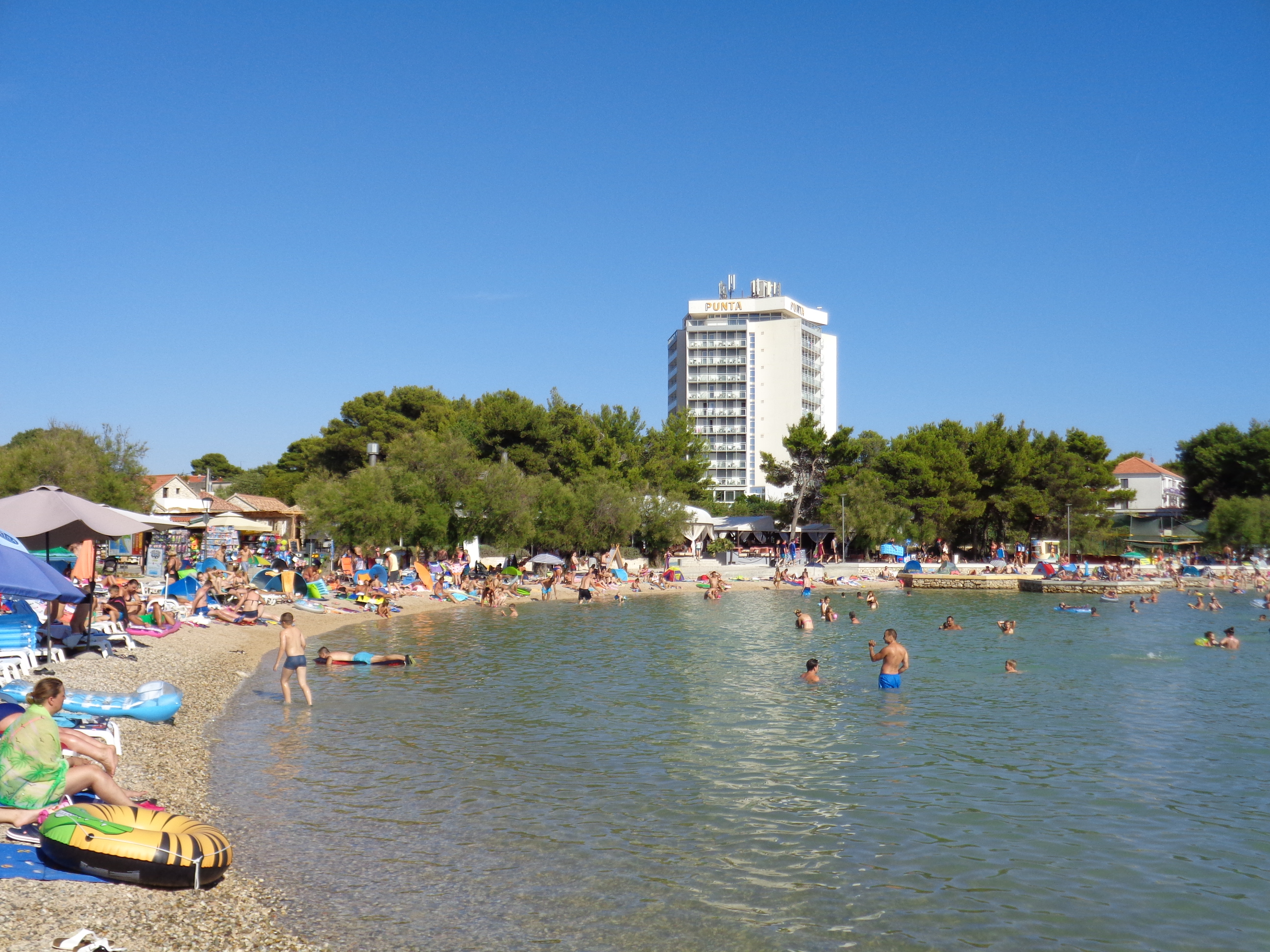 Vodice, Šibenik-Knin County, Croatia - blue beach at Punta Hotel